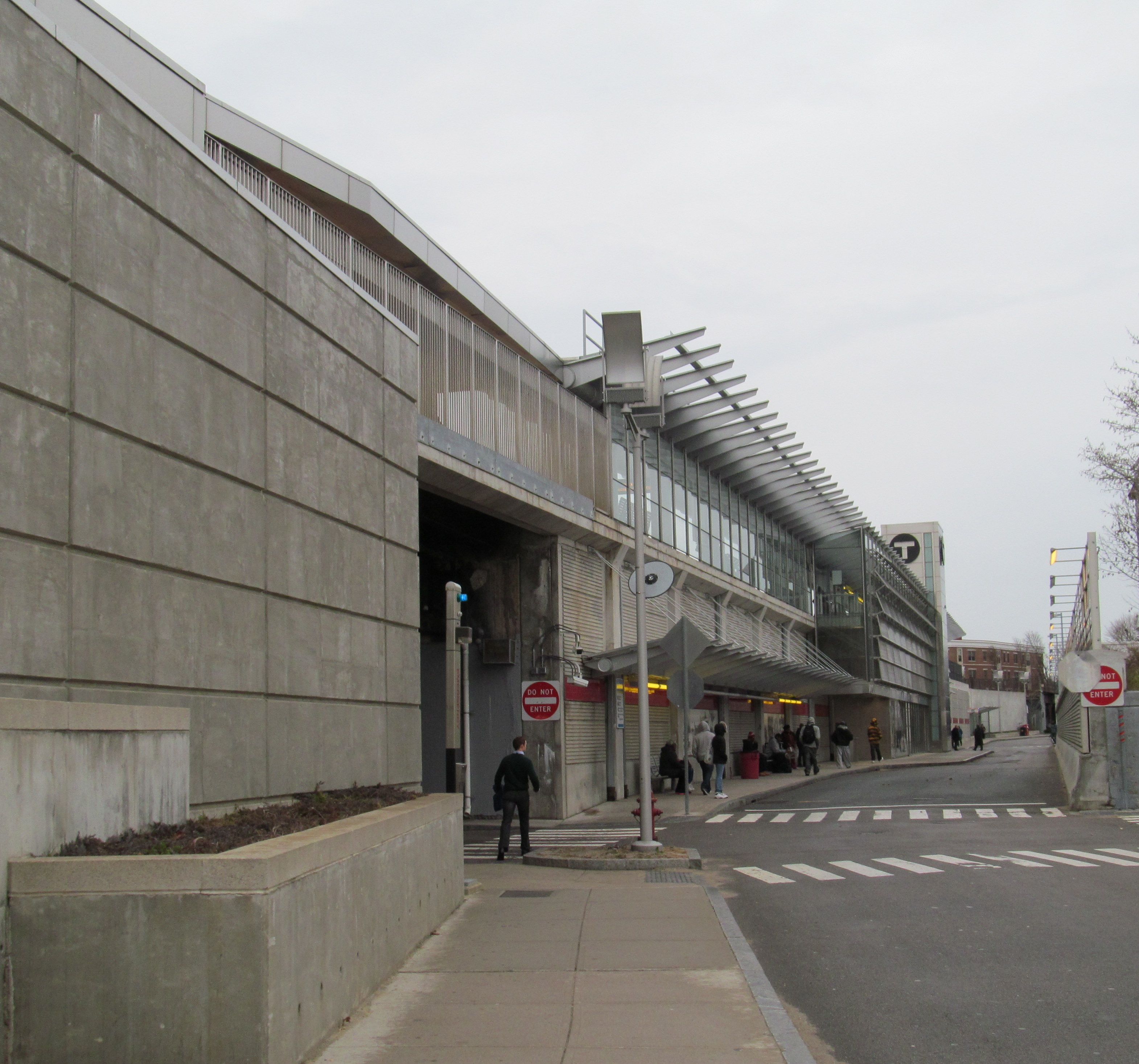 Fields Corner station as seen from the station access road